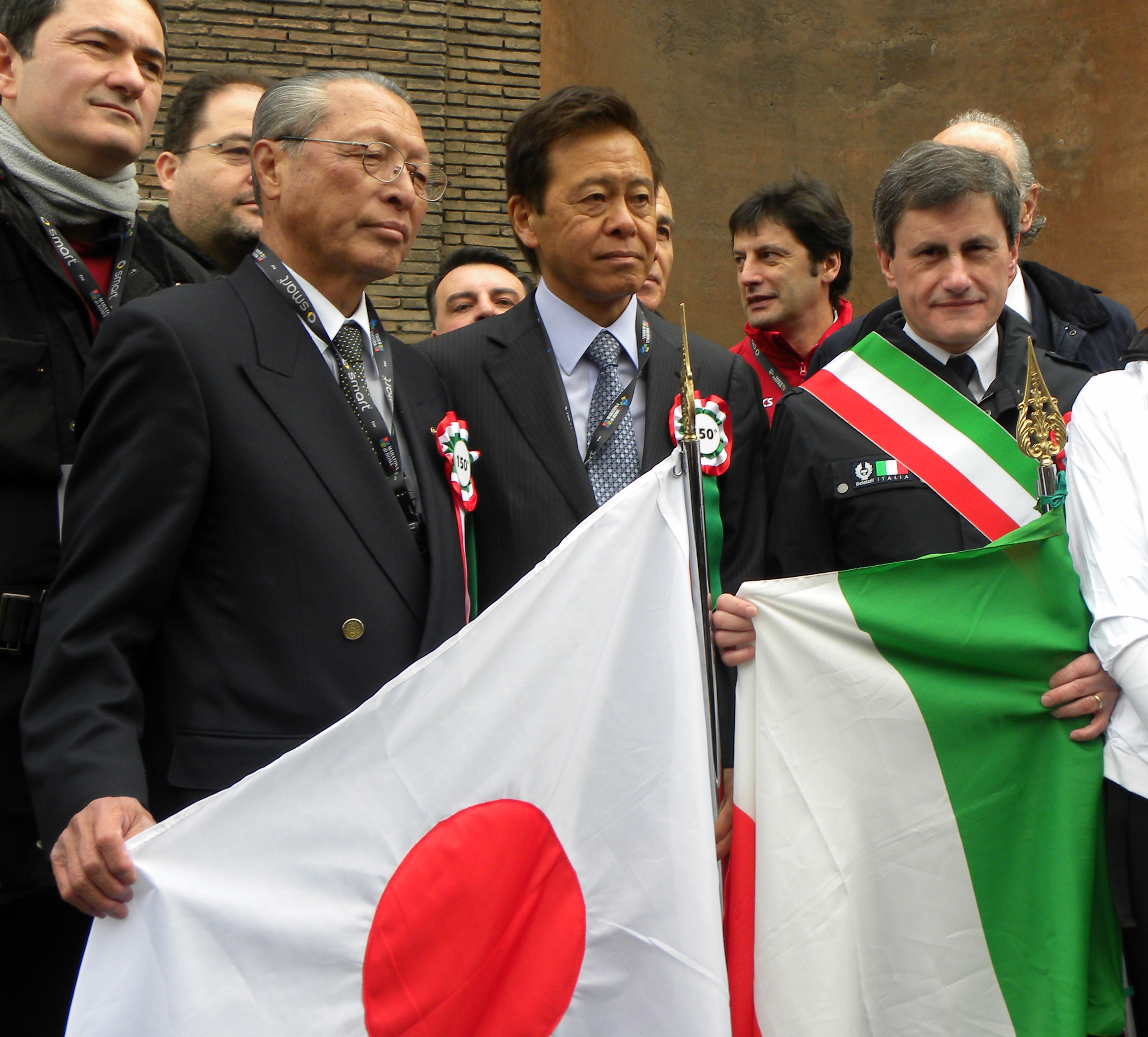 Yasuhiro Andō, Ambassador to Italy, and Gianni Alemanno, Mayor of Rome Comune, attended the opening ceremony of the Rome City Marathon in Rome Comune, Rome Province, Lazio Region on March 20, 2011. (c.f. "東日本大震災をめぐるイタリア、アルバニア、マルタ、サンマリノでの日本支援エピソード集", ambasciata del giappone, Ambasciata del Giappone in Italia.)